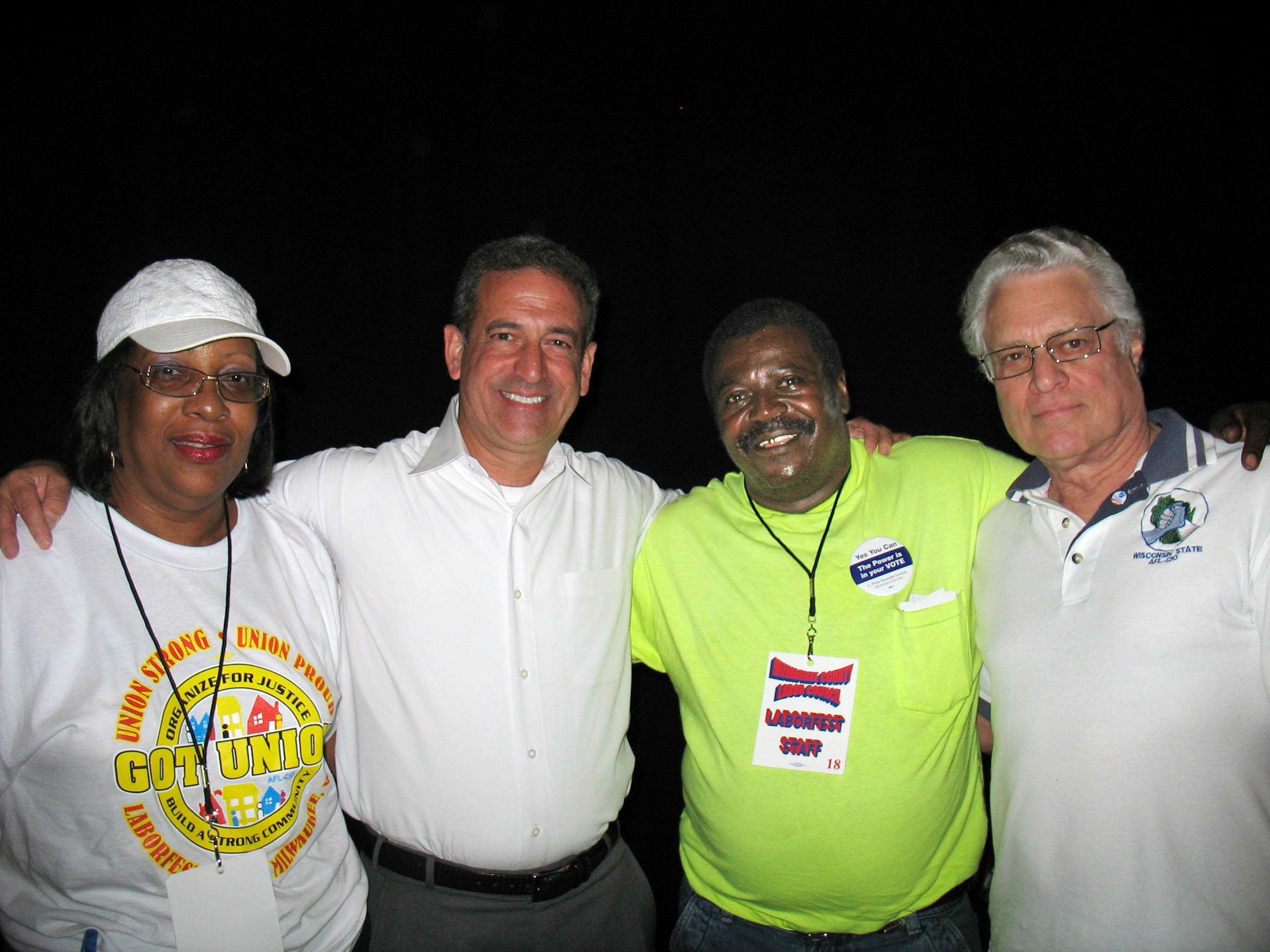 WI: Milwaukee Laborfest & Obama rally, September 1, 2008 From left: Linda, Milwaukee Area Labor Council; Sen. Russ Feingold; Willie D. Ellis, President of the Milwaukee Area Labor Council, IUOE Local I39; David Newby, President of the Wisconsin State AFL-CIO.